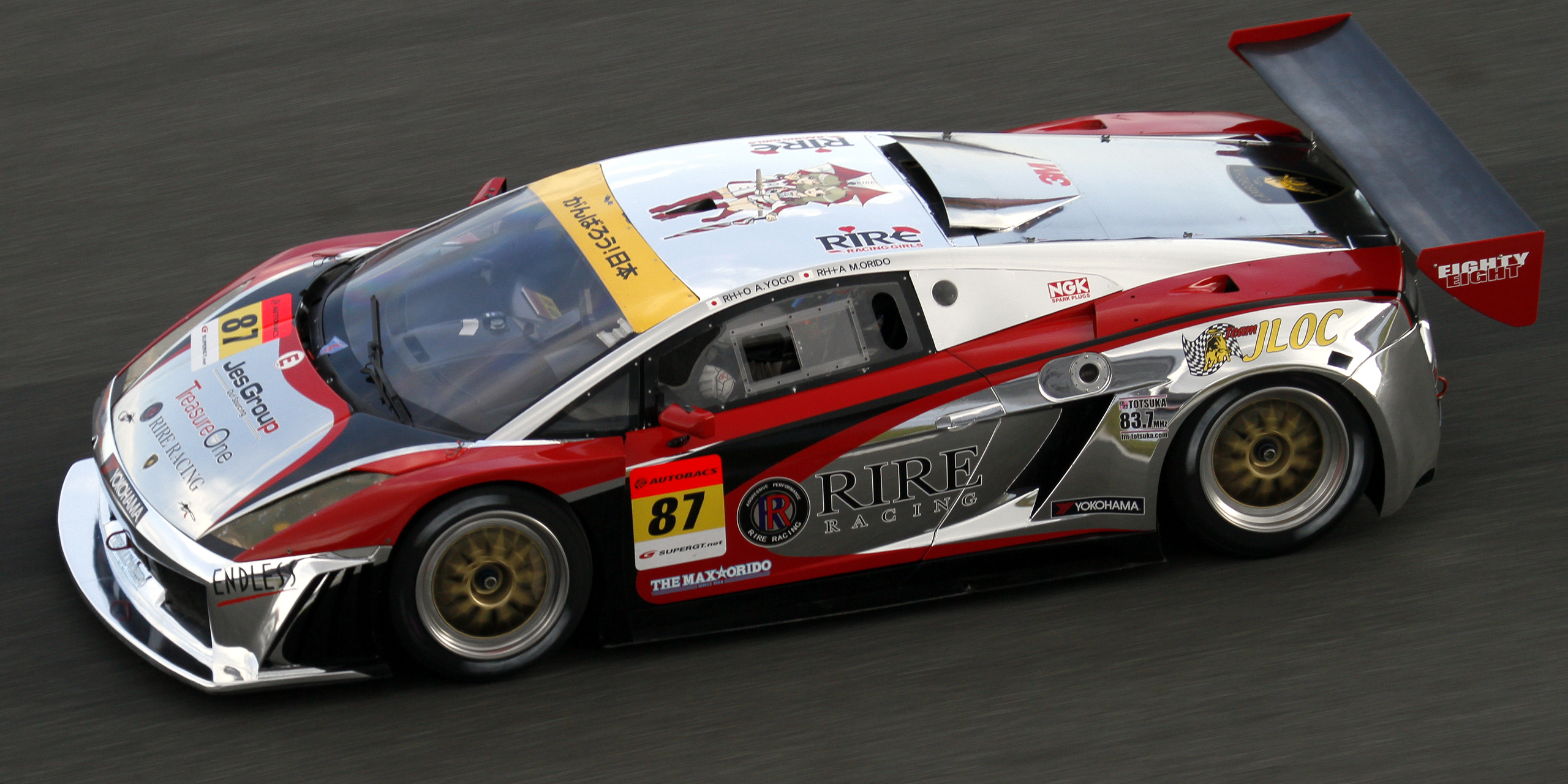 Super GT 2011 Rd.2 Fuji GT 400km: (JLOC) driving the JLOC Lamborghini RG-3 during Friday test session.